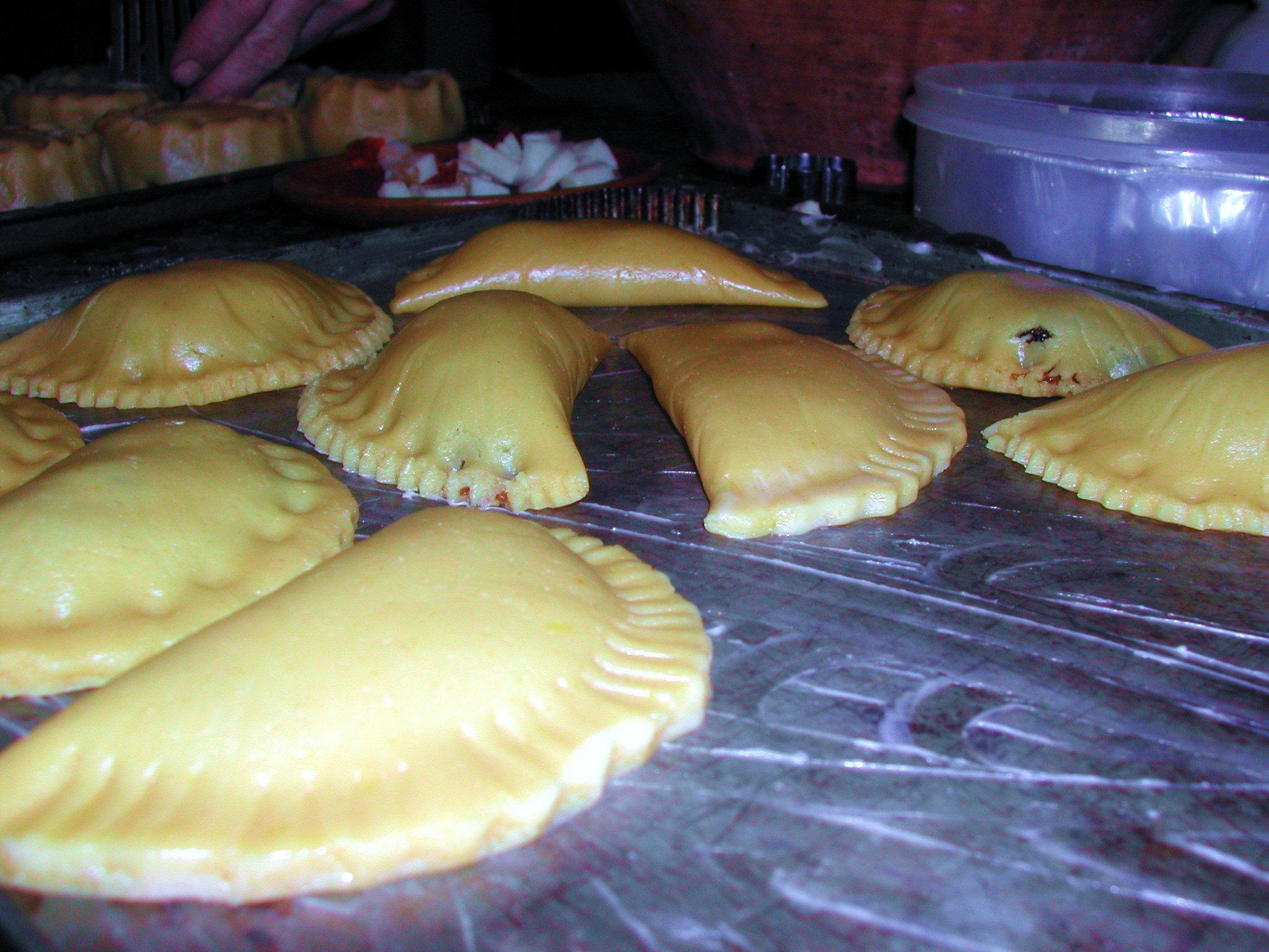 Mallorcan sweet cake made with jam made from gourds, over the roasting tin ready to put in the oven, Mallorca.